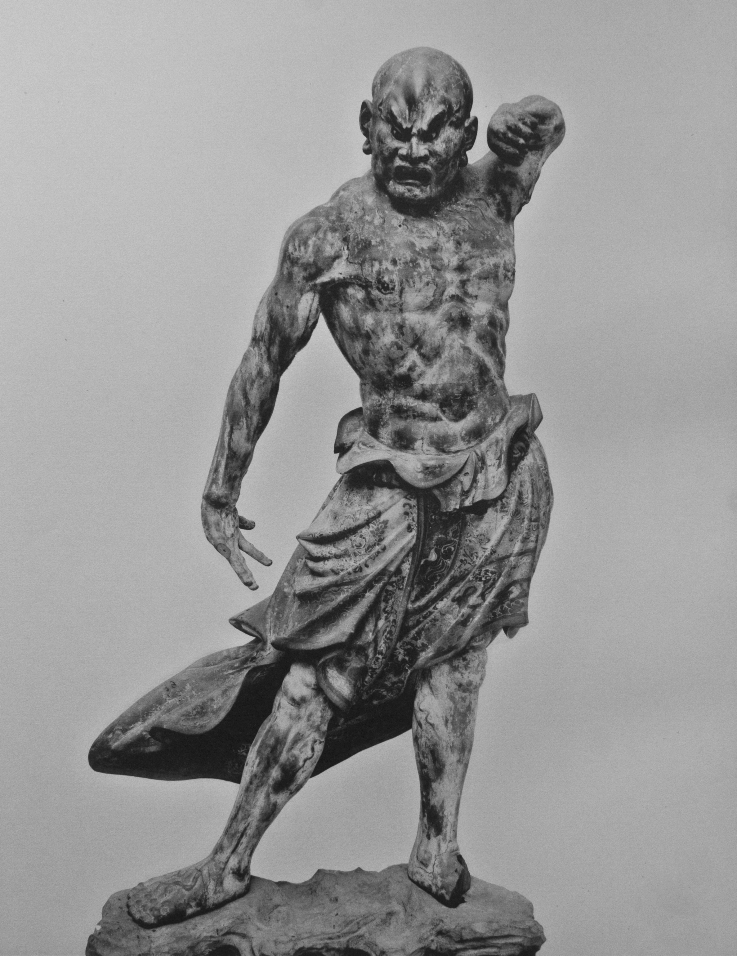 Kofukuji, Nara, Japan